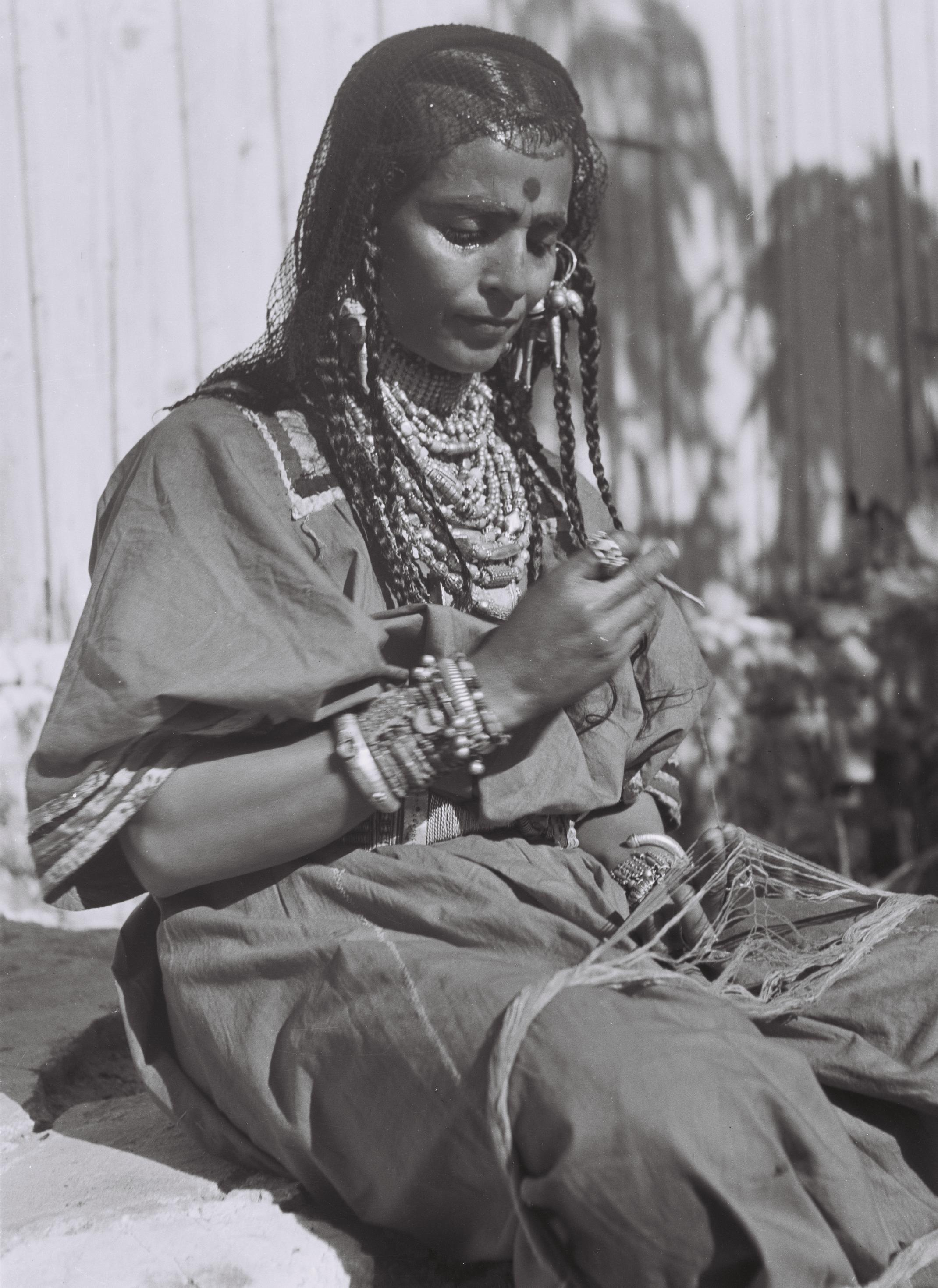 A YEMENITE HABANI WOMAN DOING HANDICRAFT. אשה תימניה חבנית עוסקת במלאכת יד.